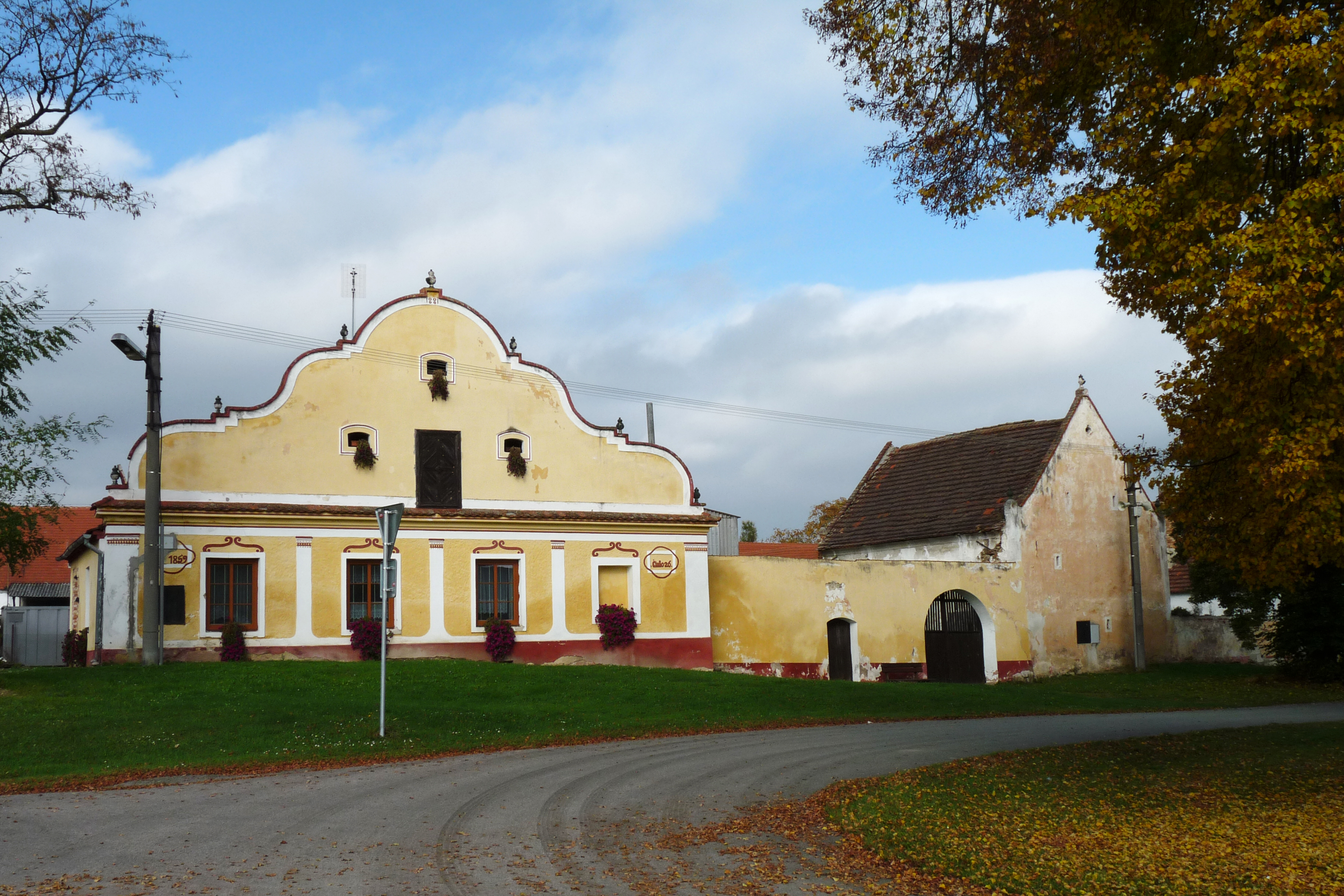 House No 26 in the village of Mahouš, Prachatice District, South Bohemian Region, Czech Republic.